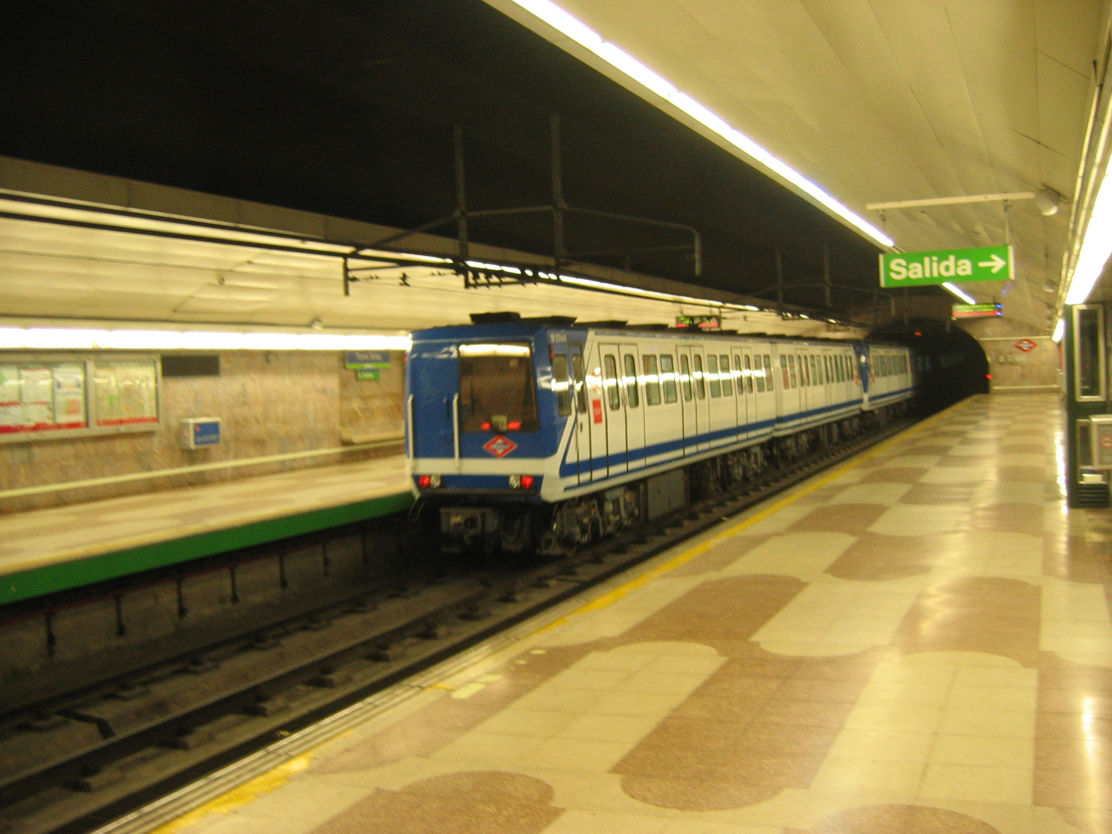 Train in Madrid Metro, type - Series 2000A